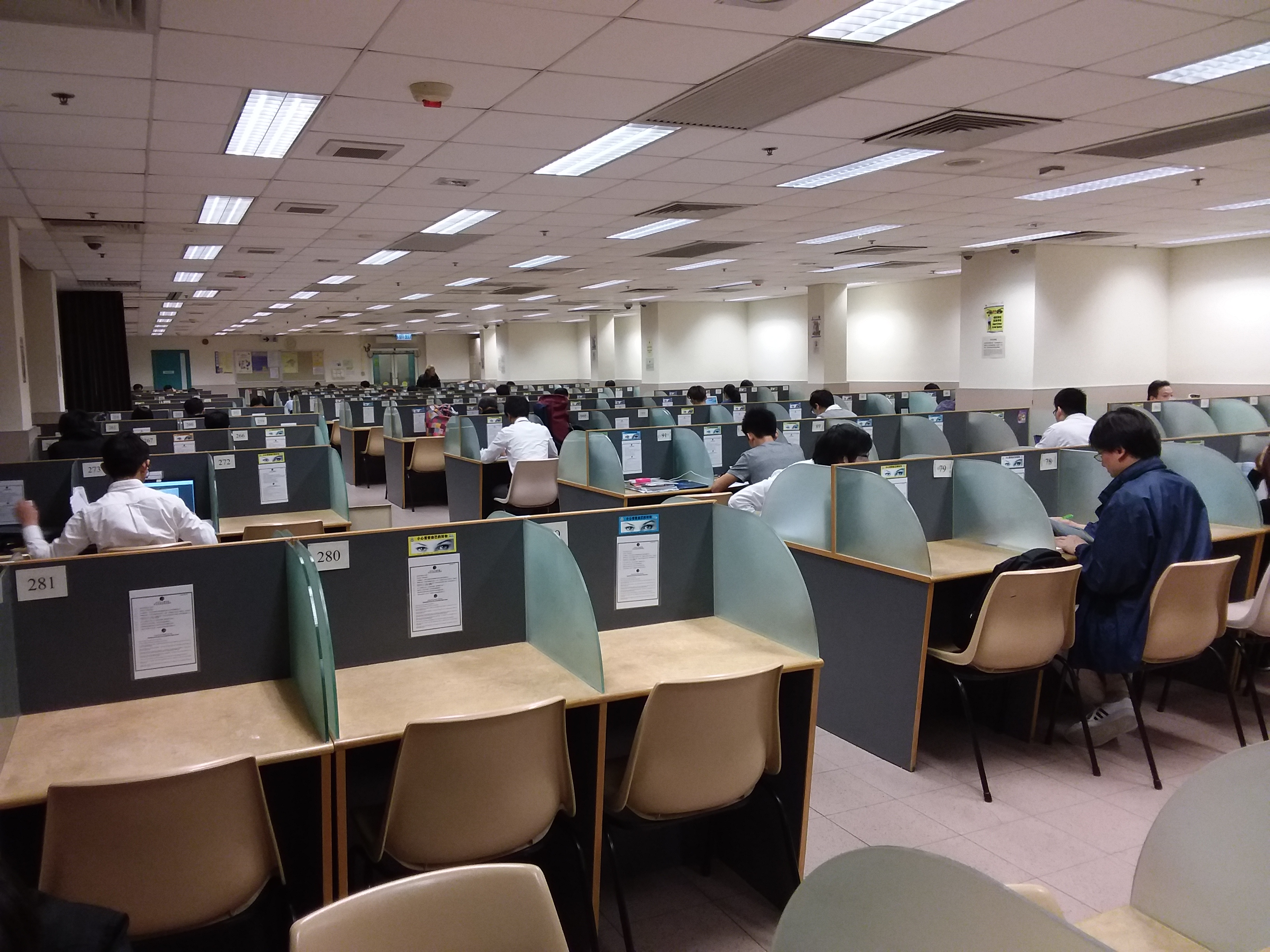 HK 灣仔 Wan Chai 駱克道公共圖書館 Lockhart Road Public Library interior December 2018